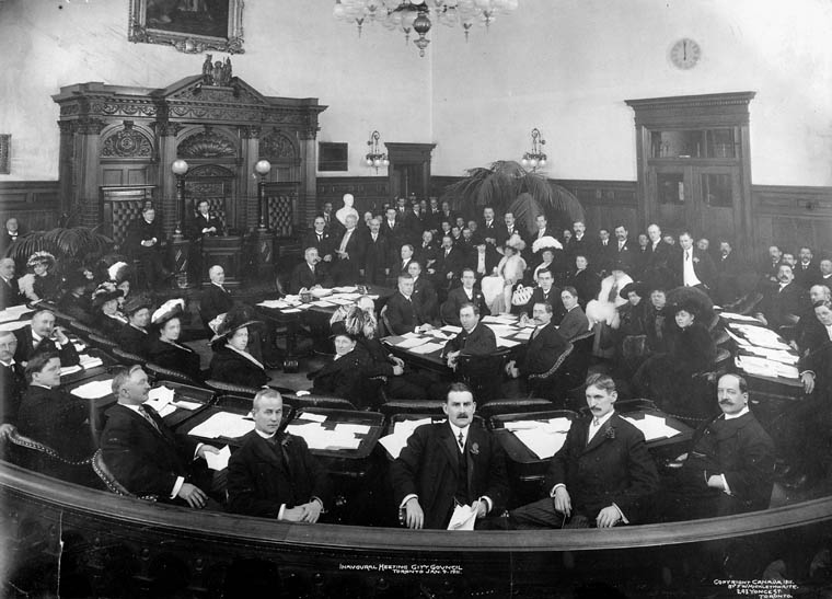 Inaugural meeting city council (Toronto, Canada)